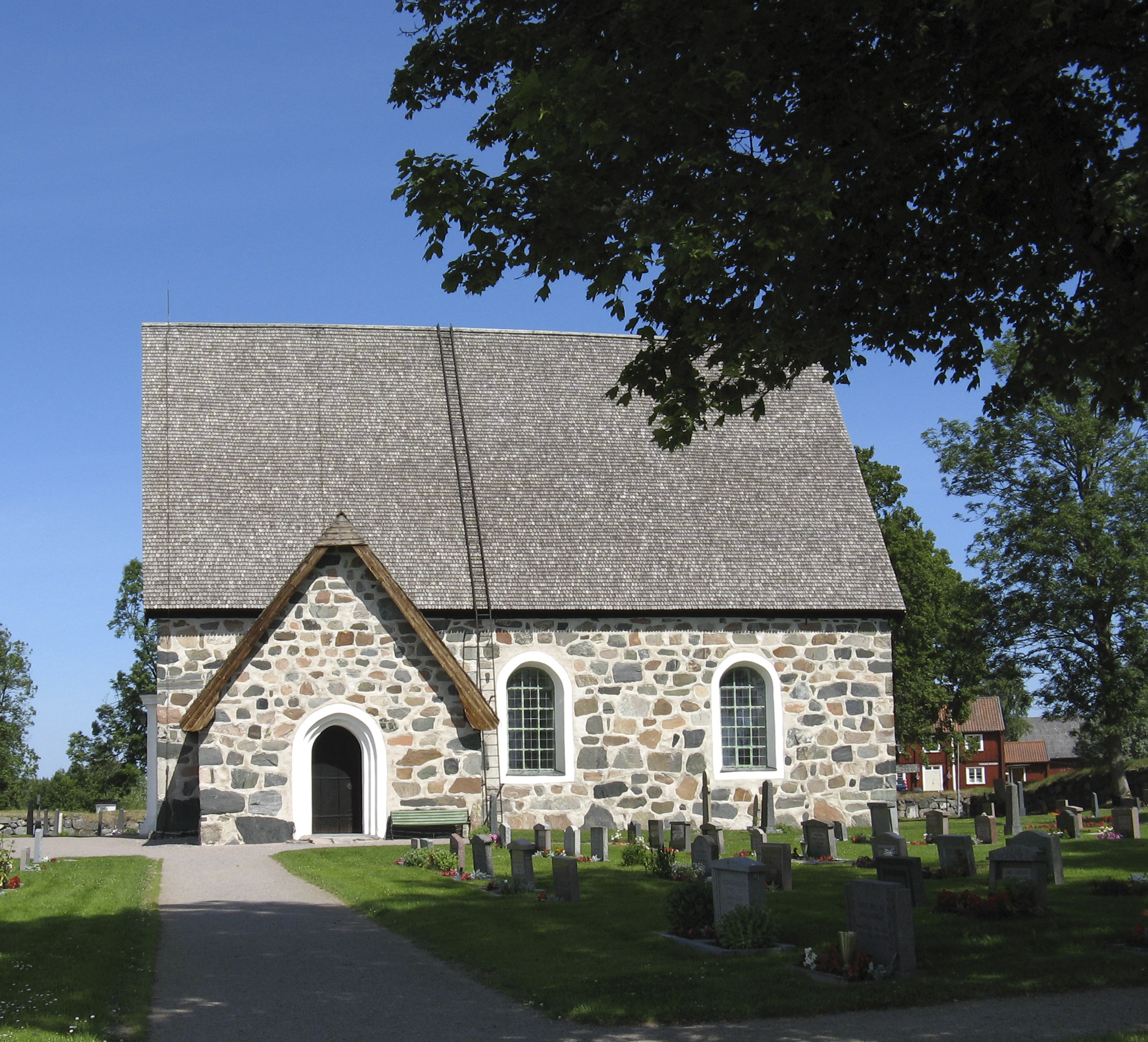 Hökhuvud Church in Uppland, Sweden